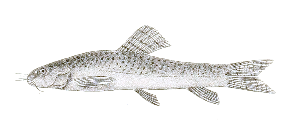 The species names / identity need verification - original names from plate are included here. The original plates showed the fishes facing right and have been flipped here. Nemacheilus semiarmatus